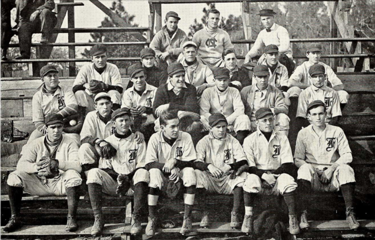 Photograph of 1911 Florida Gators baseball team